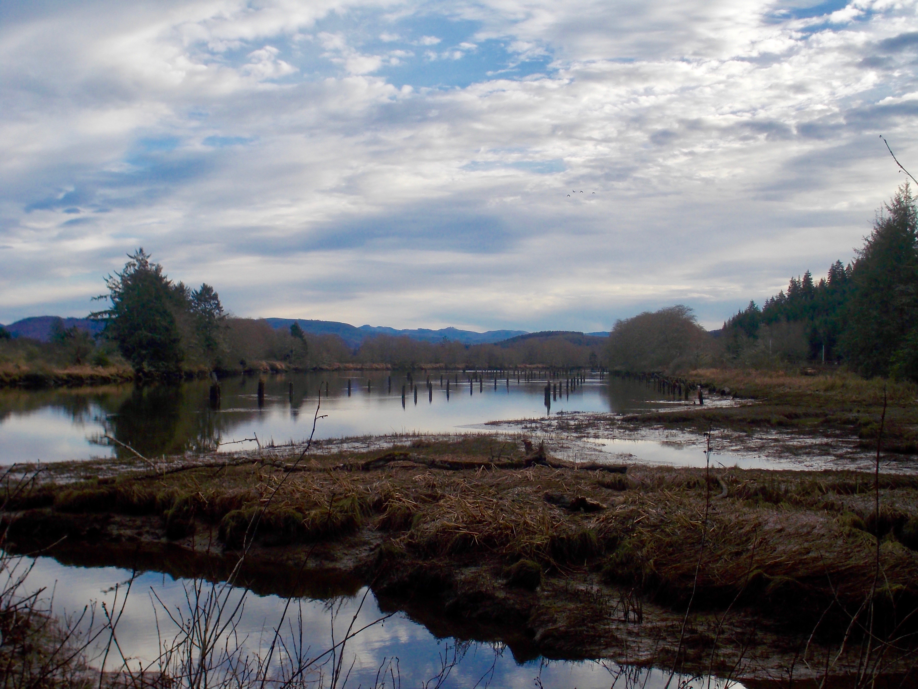 Fort Clatsop, Clatsop County, OR